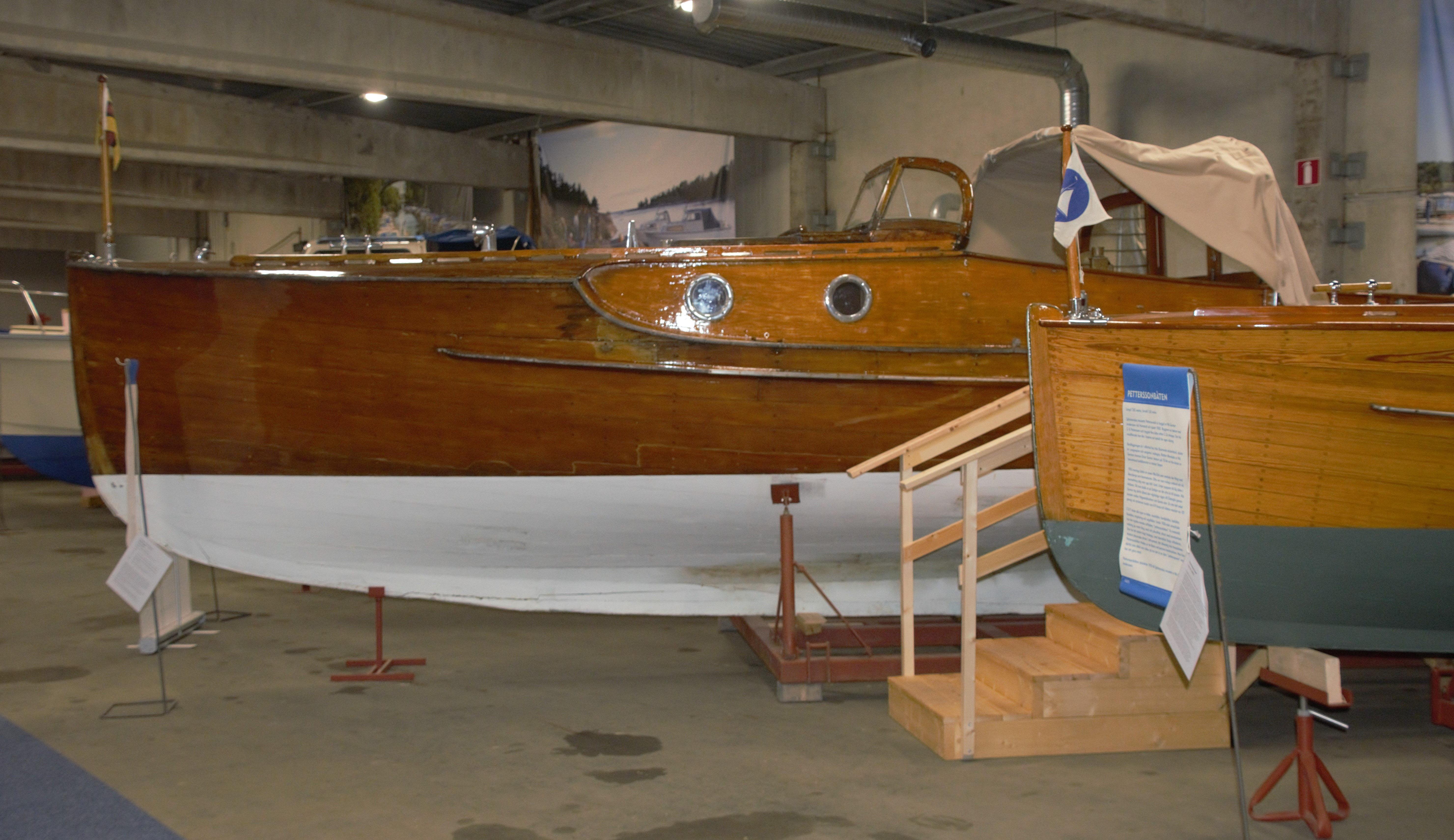 M/Y Wiking X, designed by C.G. Pettersson. Båthallen på Rindö, Sjöhistoriska museet.